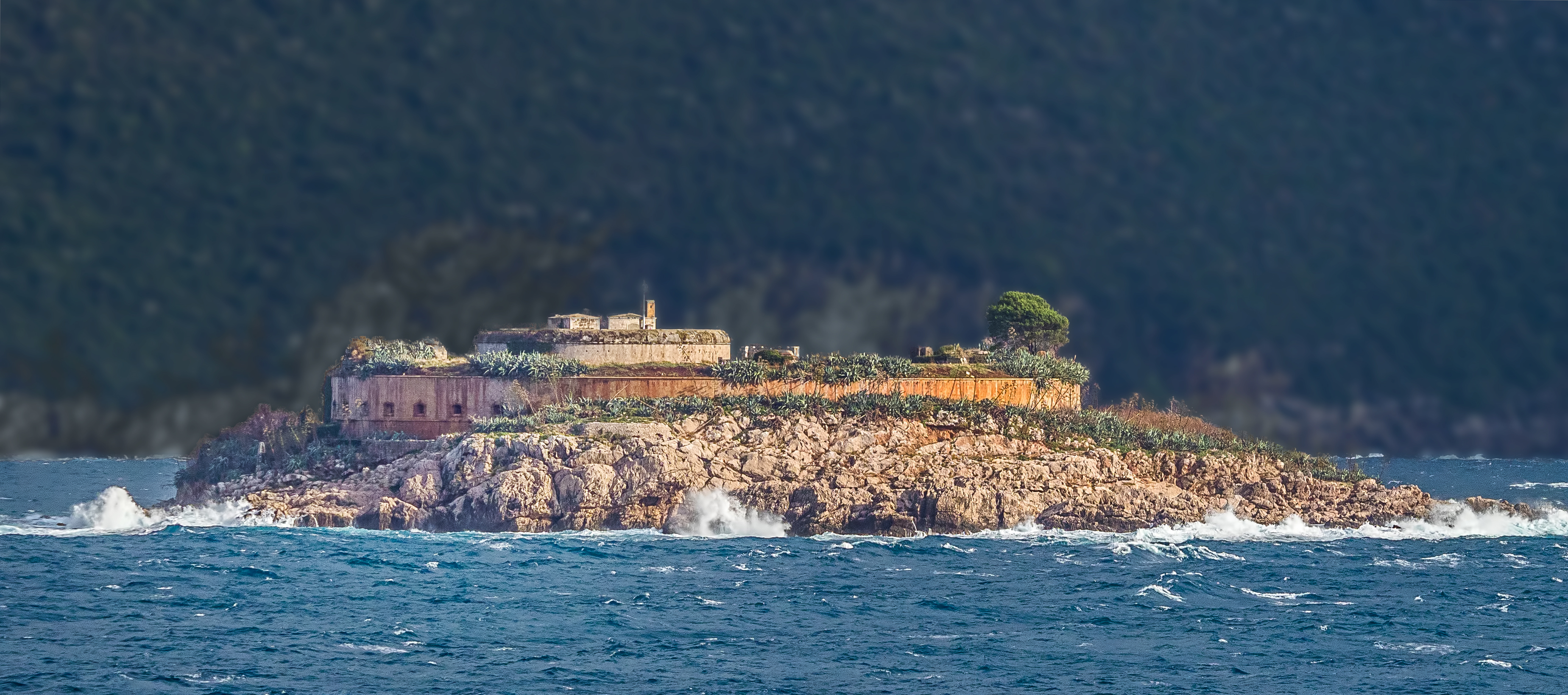 Fort Mamula on an island at the entrance at the Bay of Kotor, Montenegro. November 2017